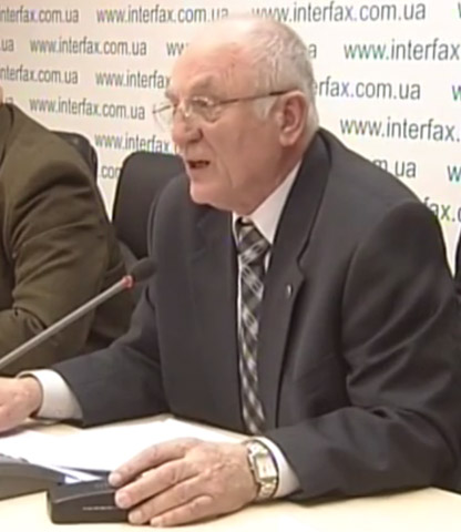 Mykola Polishchuk, Ukrainian politician, former Minister of Healthcare of Ukraine